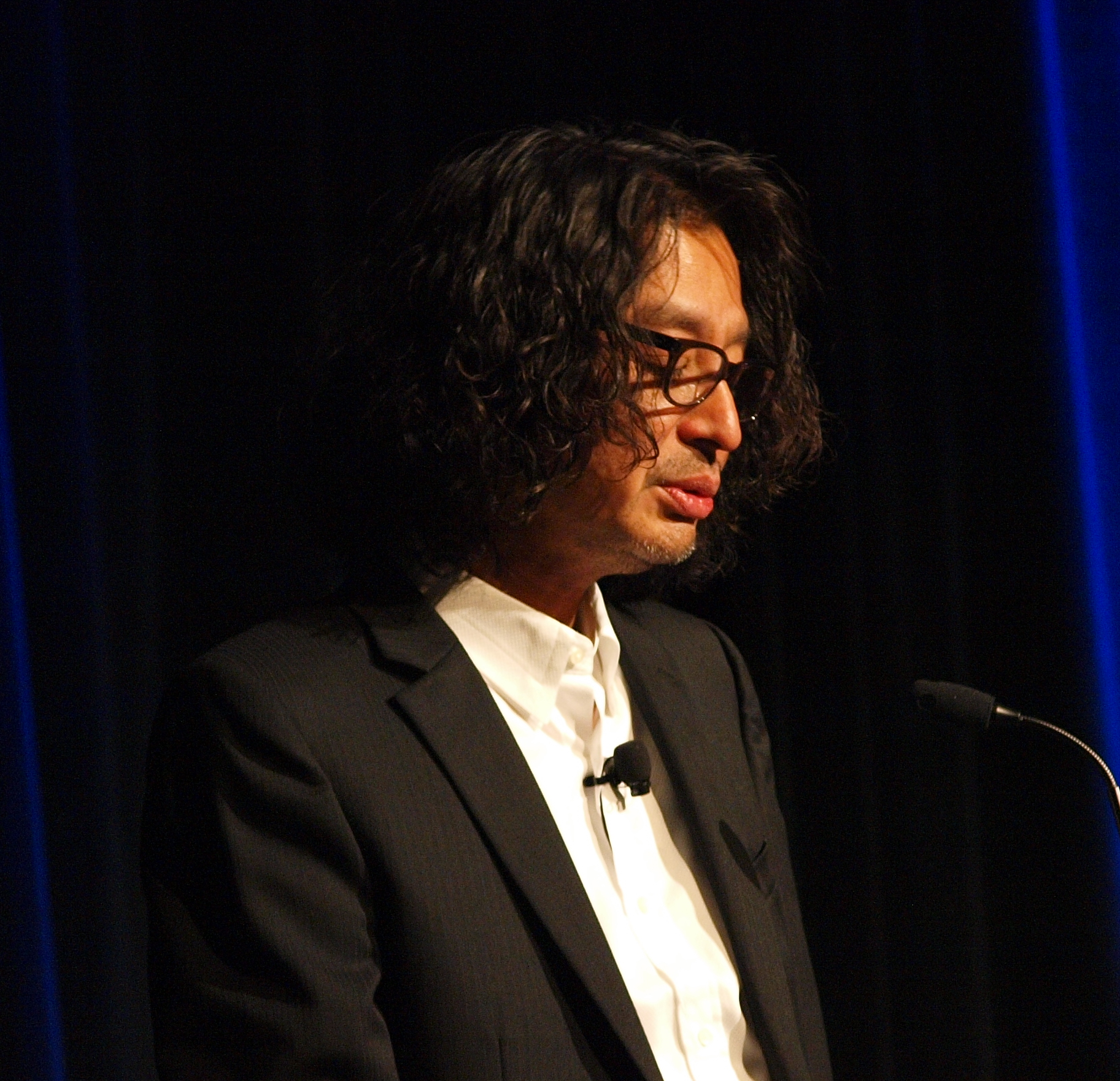 Yoshio Sakamoto at the Game Developers Conference in 2010 (third day), speaking at "From Metroid to Tomodachi Collection to WarioWare: different approaches for different audiences".